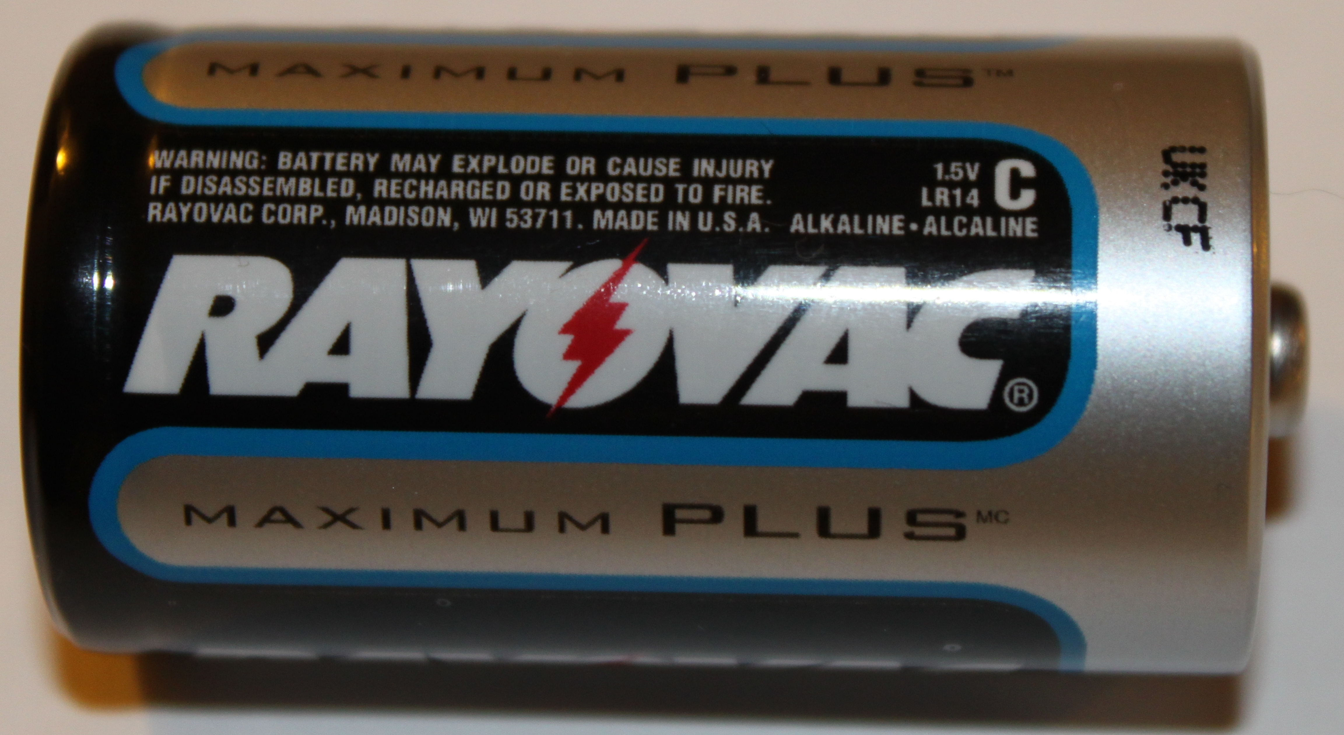 Rayovac 1.5 Volt 'C' battery